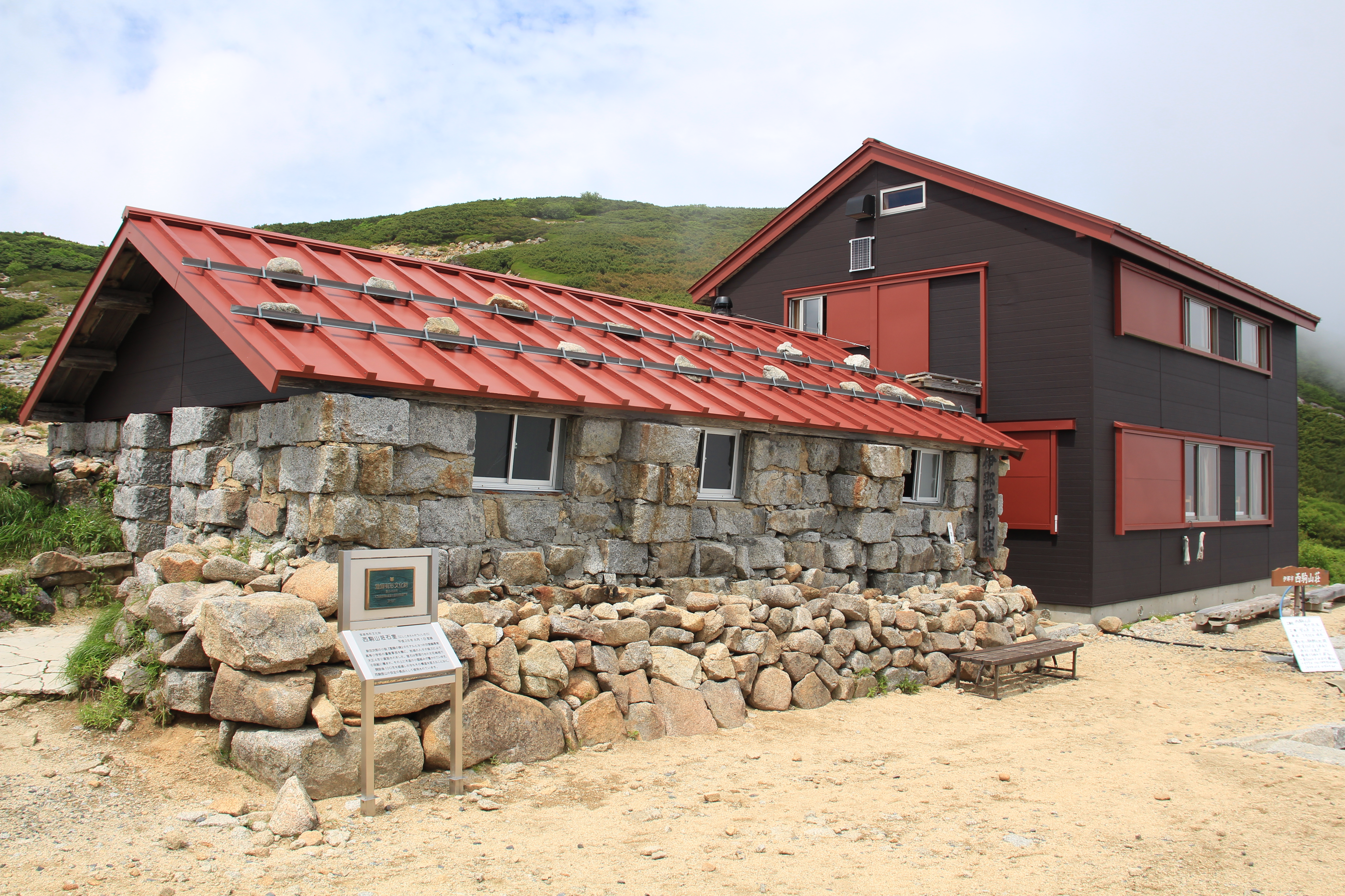 Nishikoma Sanso around the peak of Mount Shogigashira in Kiso Mountains, Ina, Nagano Prefecture, Japan.